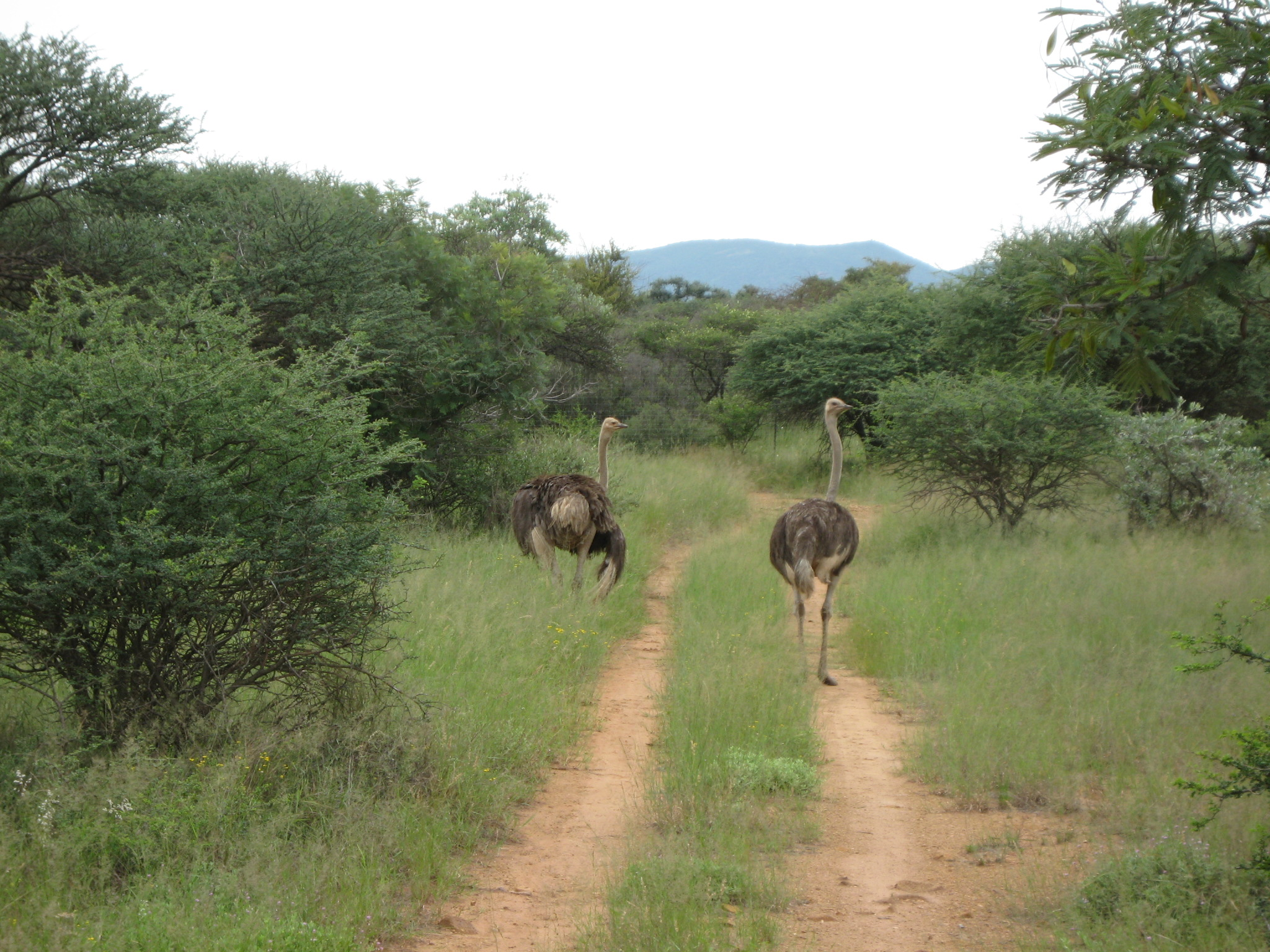 Ostriches at Mokolodi Nature Reserve, Botswana. Taken from 4WD tour of Reserve